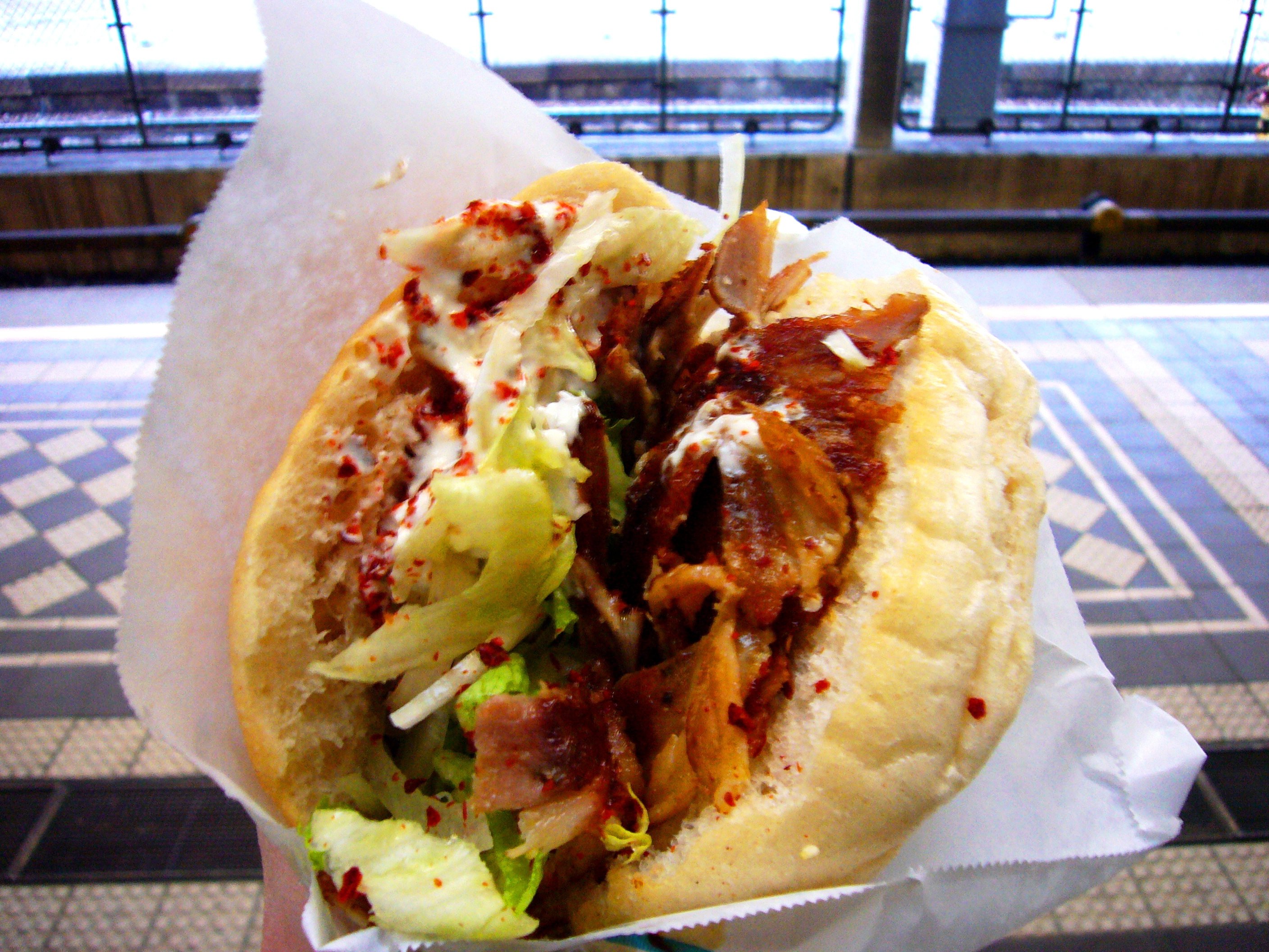 Döner-Kebap of Ober-Sankt-Veit, Hietzing, Vienna